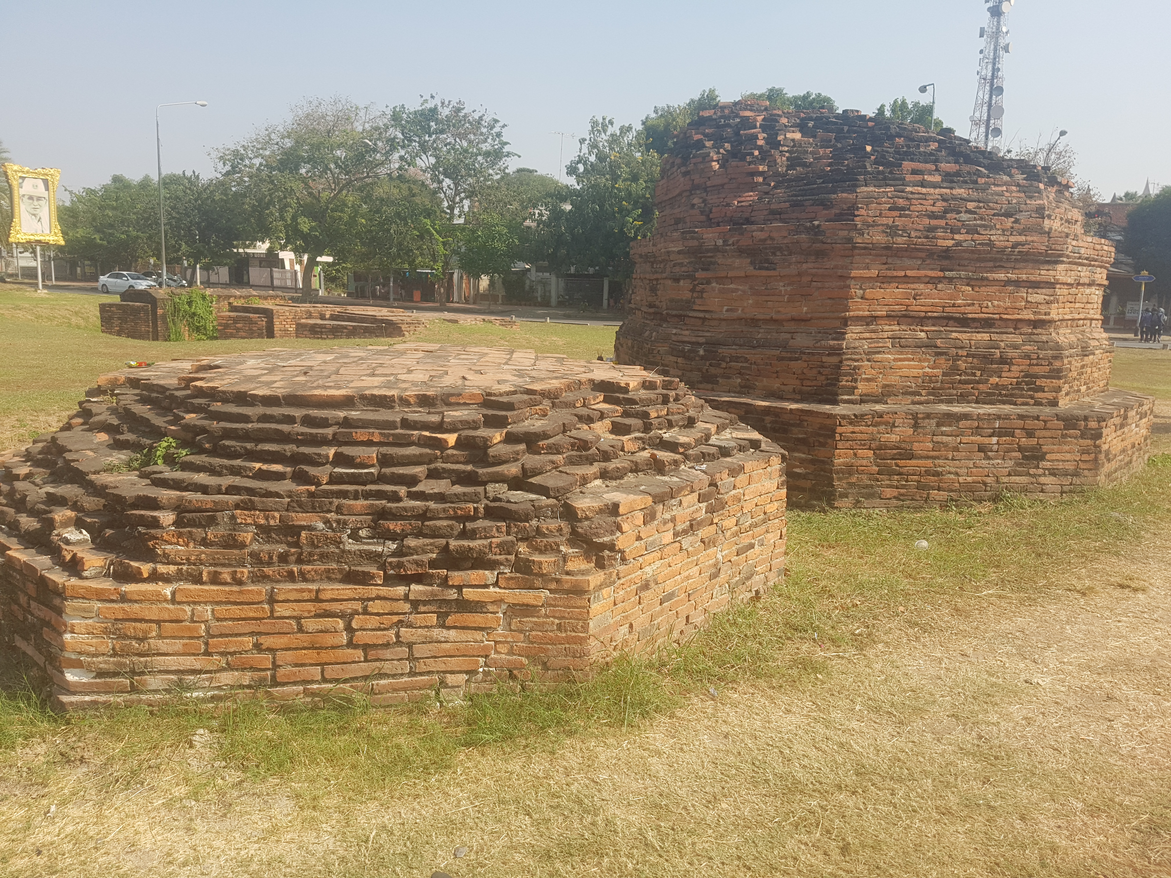 Stupas of Chao Ai Phraya and Chao Yi Phraya in front of Wat Ratchaburana in the Ayutthaya Historical Park, Phra Nakhon Si Ayutthaya Province, Thailand, built by Chao Sam Phraya for his elder brothers, Chao Ai Phraya and Chao Yi Phraya who died at that place.